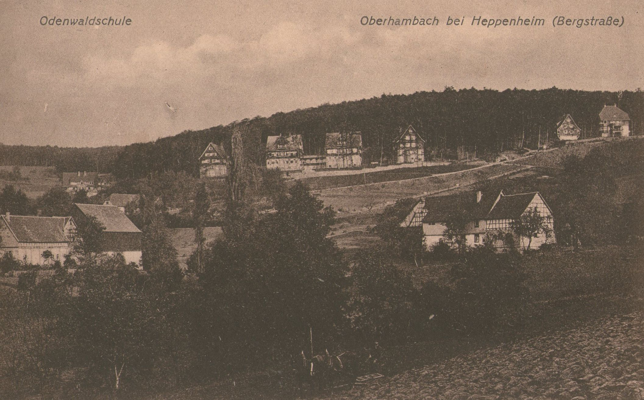 Odenwaldschule - Old Postcard, written and stamped 1918